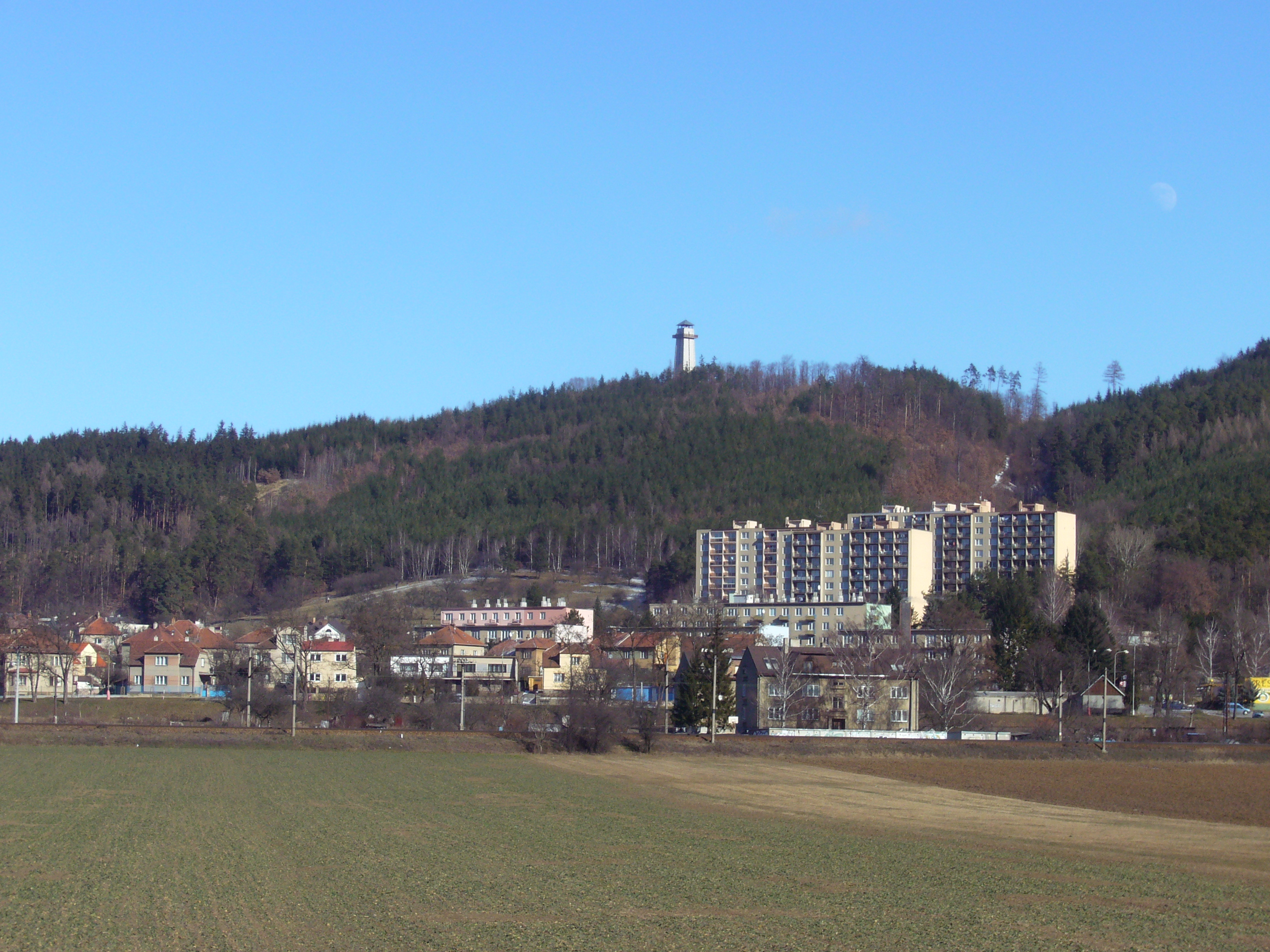 View-tower at Holedná hill near Tišnov